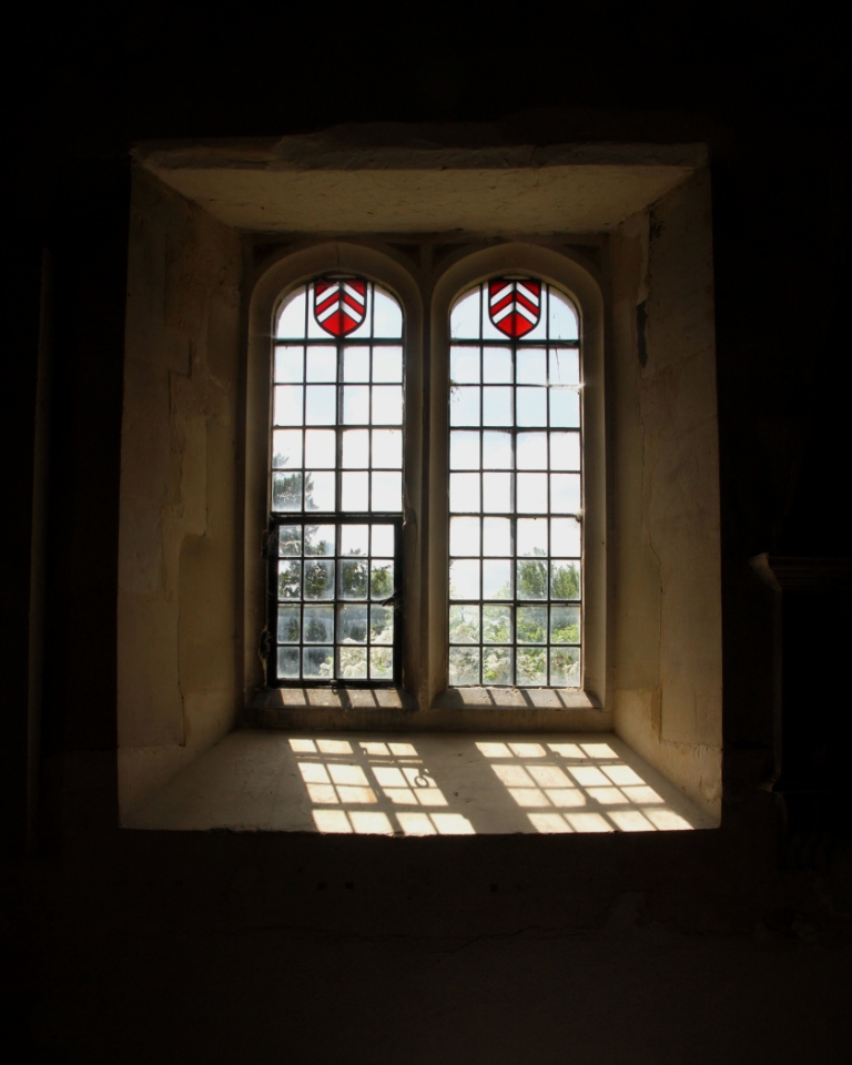 St James the Great parish church, Denchworth, Oxfordshire (formerly Berkshire): south window of south transept, seen form inside